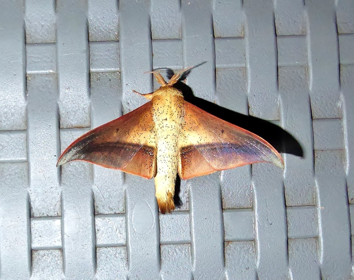 Psychocampa joanna. Species of insect.